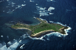 Aerial view of Mokuʻauia (Goat Island), off the north east coast of Oʻahu, Hawaiʻi